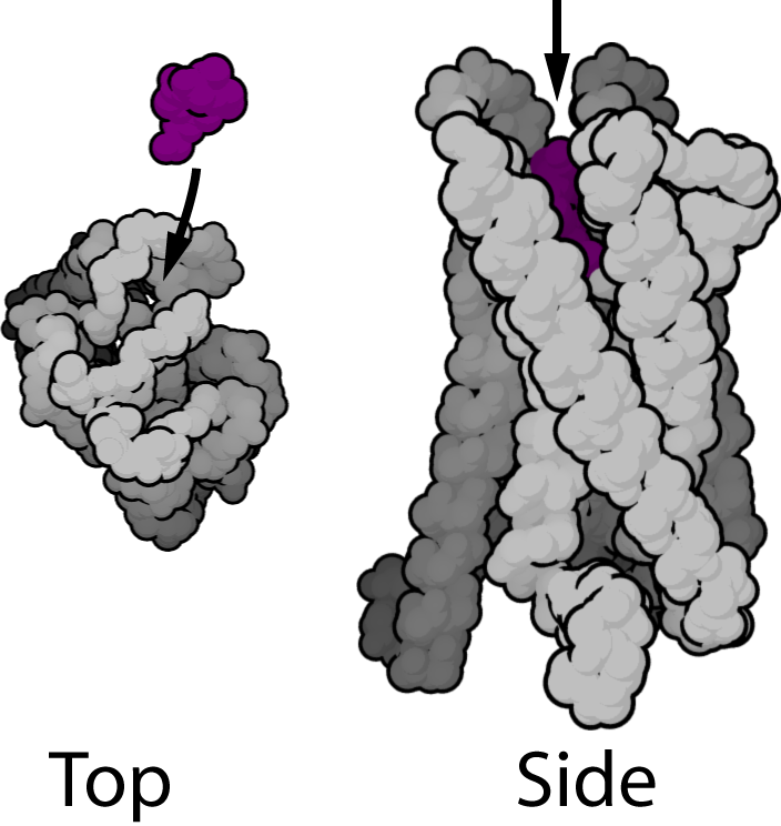 Based on coordinates for OPM 2iqo.